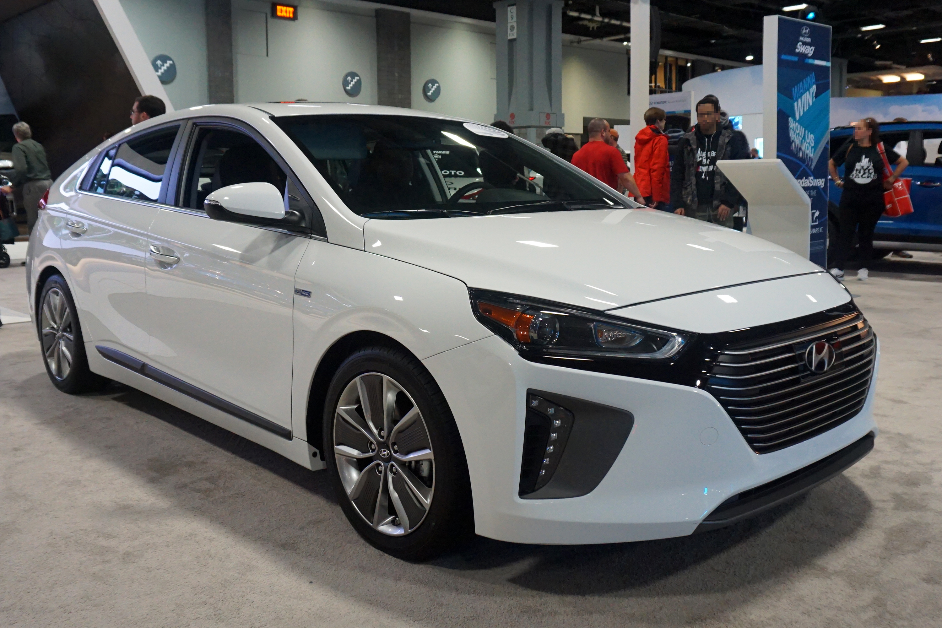 2017 Hyundai Ioniq Hybrid exhibited at the 2017 Washington Auto Show, D.C., U.S.A.